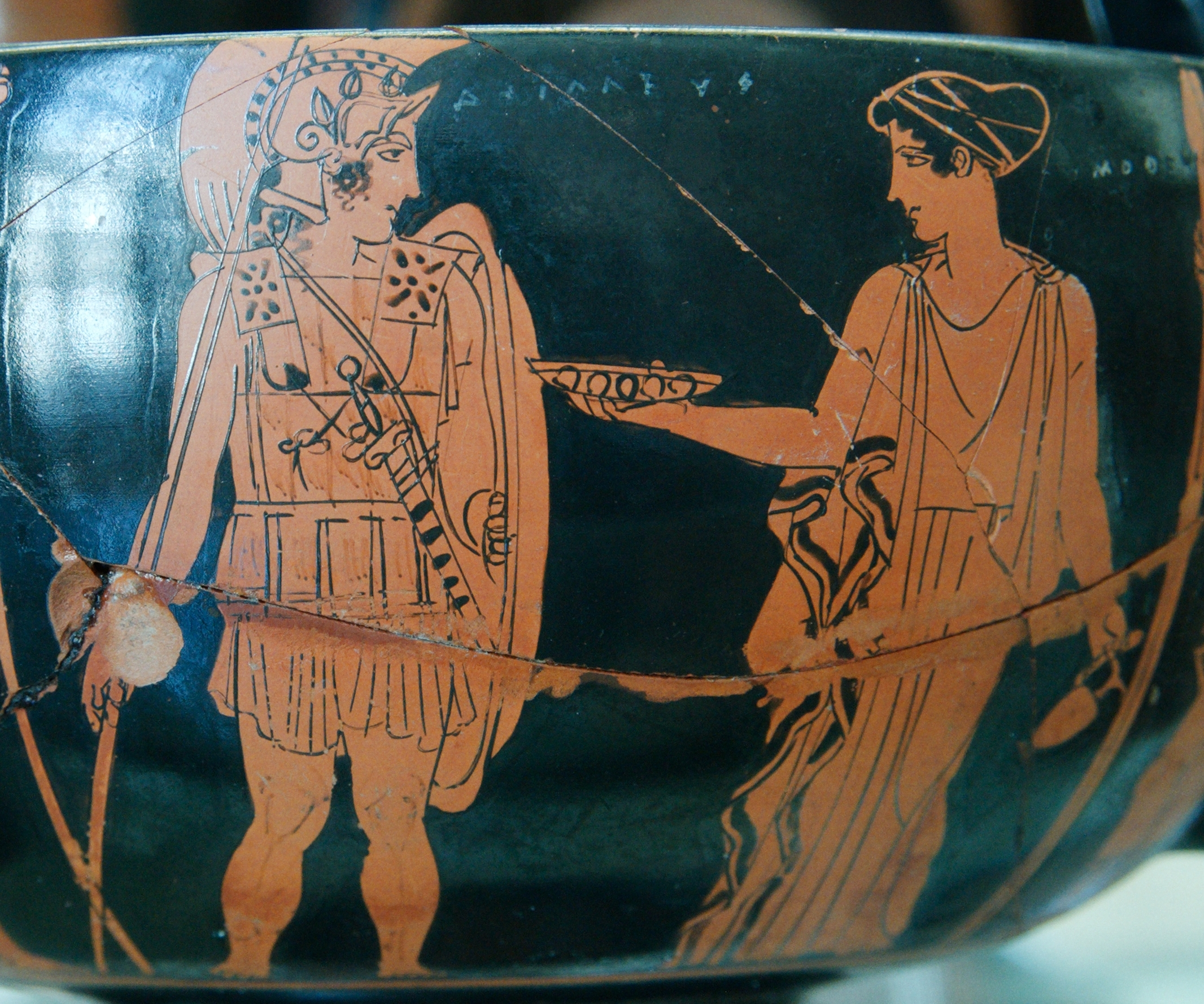 Achilles departing, the Nereid Kymothea holding a phiale and an oinochoe (all named). Detail, side B from an Attic red-figure kantharos.